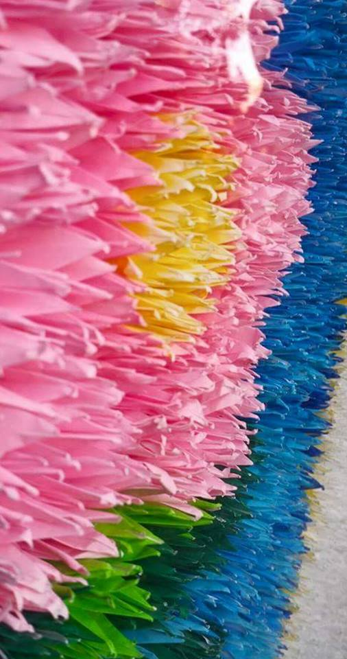 Closeup of the paper cranes dedicated to the Children's Peace Monument in Hiroshima, Japan. Sadako Sasaki attempted to create a thousand cranes before she died of leukemia due to radiation poisoning. This monument and all of the cranes are donated to her as well as the other children who were affected by the atomic bomb.